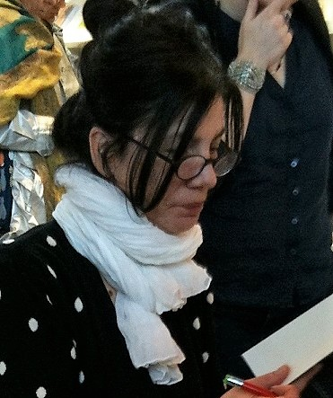 BrigitteGiraud French writer